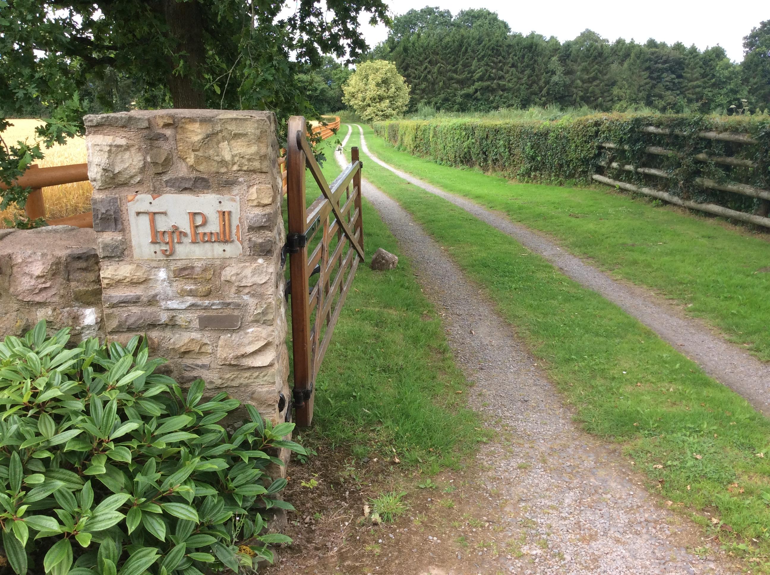 Gateway to The Pwll, Tregare, Monmouthshire